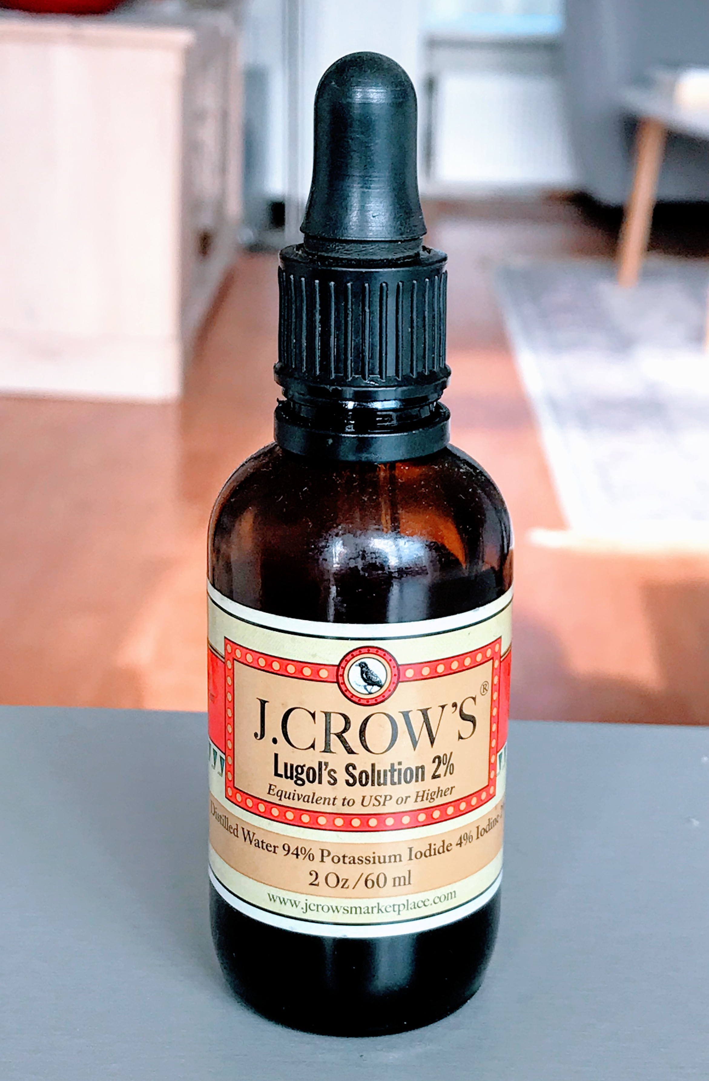 J crow's lugol's iodine 2